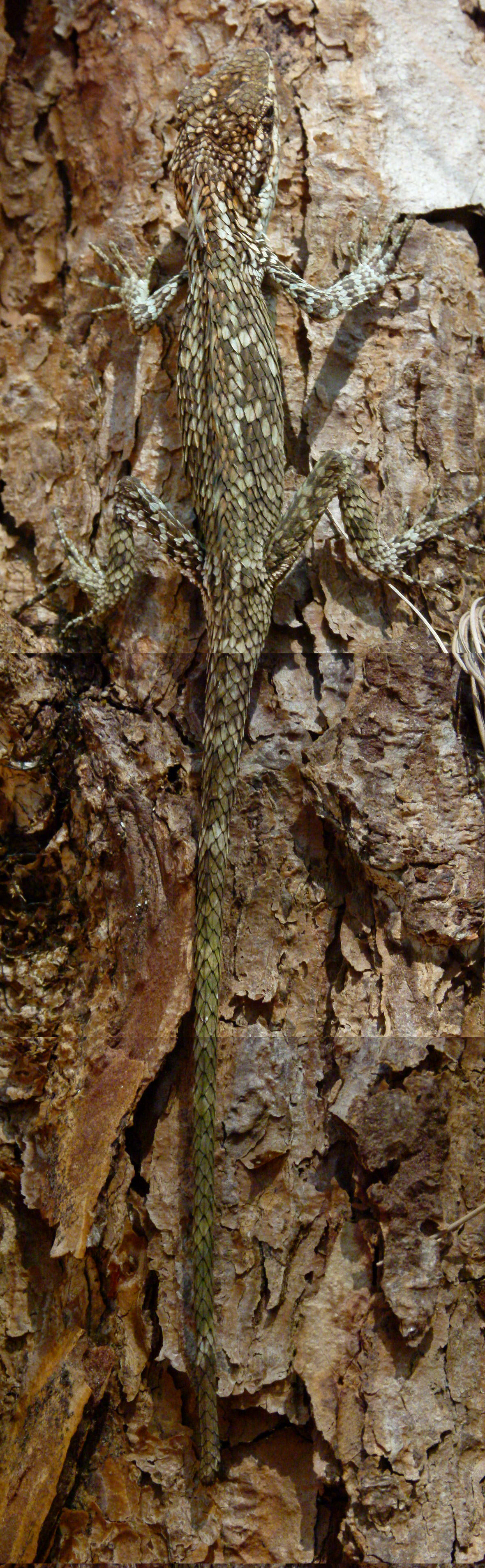 Salea horsfieldii, Mukurthi National Park, India